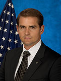 Assistant Secretary of Public and Intergovernmental Affairs Tommy Sowers